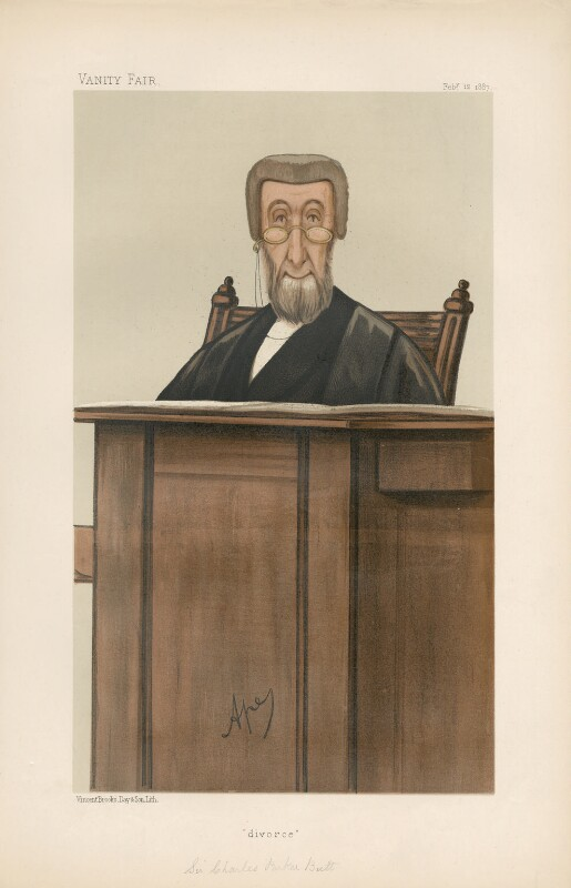 Judges No.16: Caricature of Charles Parker Butt. Caption reads: "divorce"